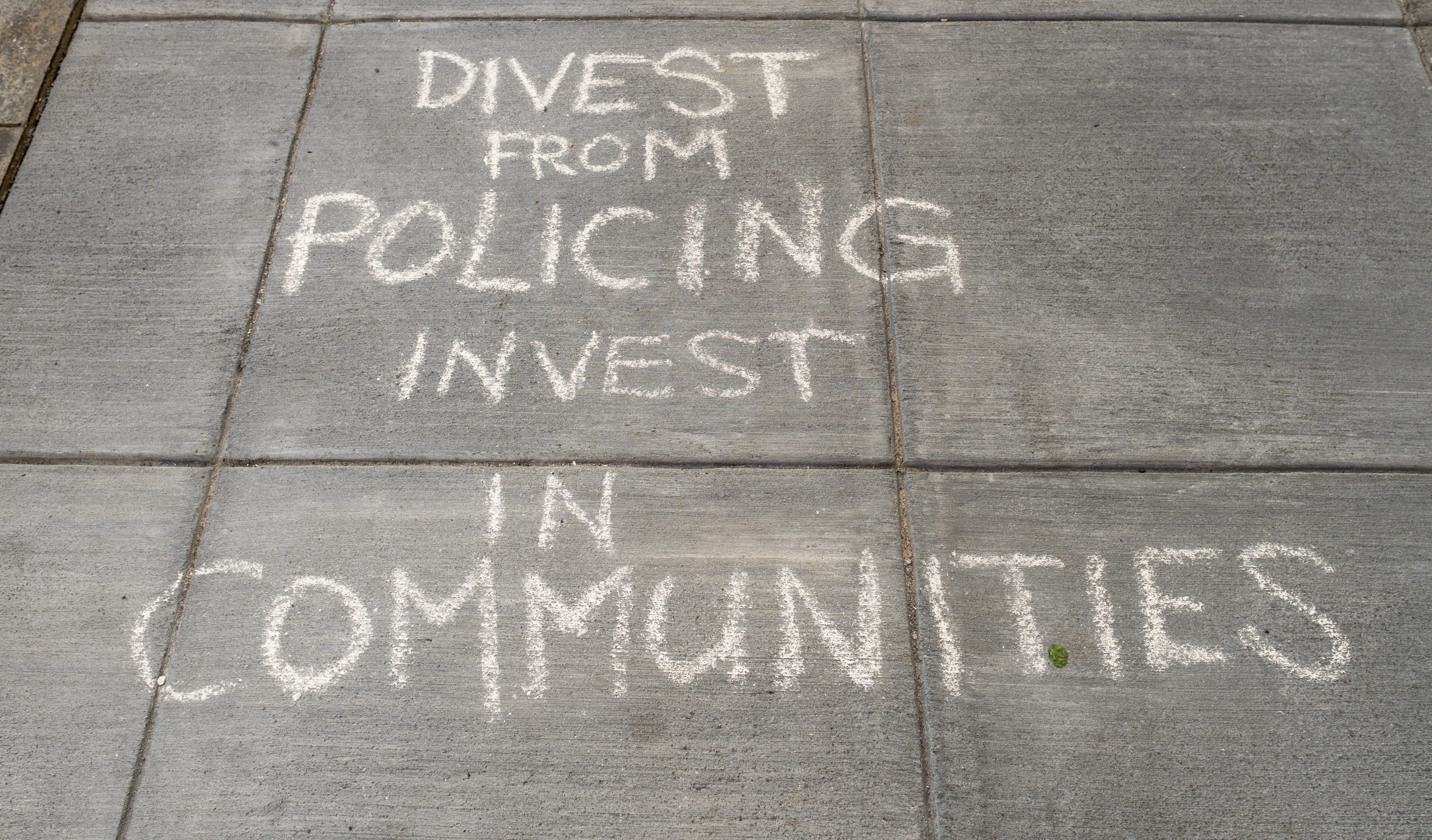 "Divest from Policing Invest in Communities"